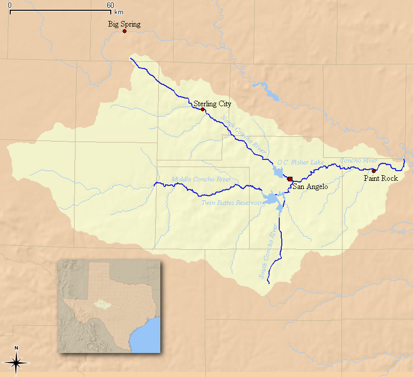 This is a map of the Concho River watershed in Texas. I, Kuru, created from data originating at the USGS.